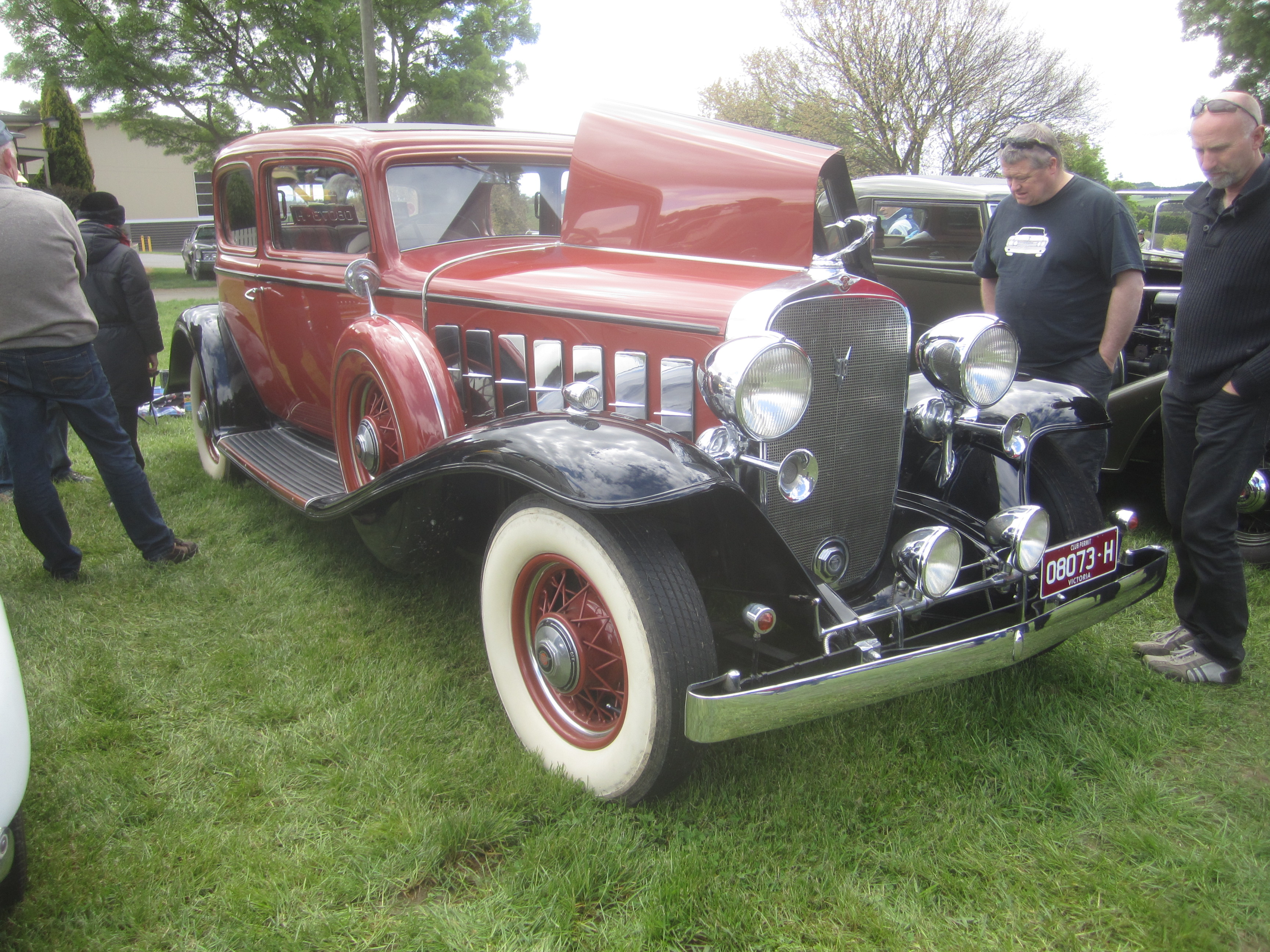 In 1930 the Series 353 was introduced, updated in 1931 with the longer 355A with 5 hood ports, then the 355B in 1932, 355C in 1933, 355D in 1934 and 355E in 1935. The 1932 Series 355B was even longer and lower, the longer hood now had six hood ports. The new front end styling included a flat grille built into the radiator shell, head and side lights of streamlined bullet shape and the elimination of the fender tie bar and monogram bar. Runningboards curved to match the sweep of the front fenders and blended into the rear fenders. The tail of the rear fenders blended into the fuel tank valence. Available in 2 door Coupe, 4 door Sedan, 2 and 4 door Convertible, Limousine and Town car. Engine; 353 L head V8. Also available this year; 370B; V12 and 452B; V16